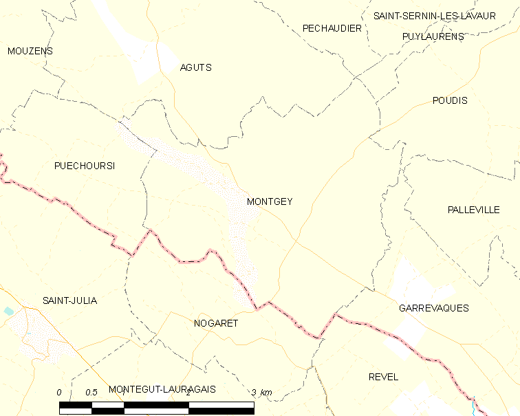 Map of French municipality Montgey